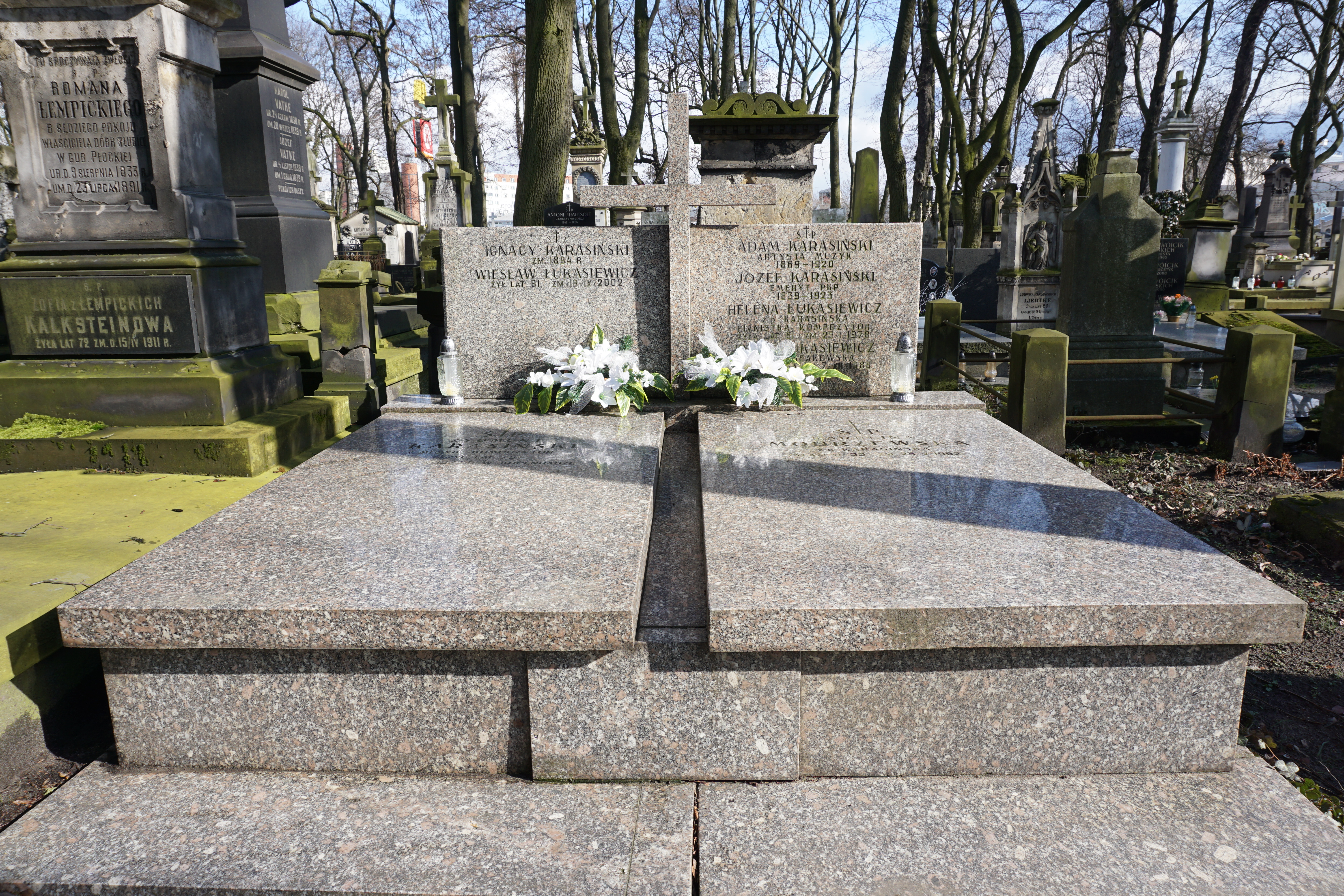 The grave of Adam Józef Karasiński at the Powązki Cemetery (section 159, row 6, grave 23, 24)